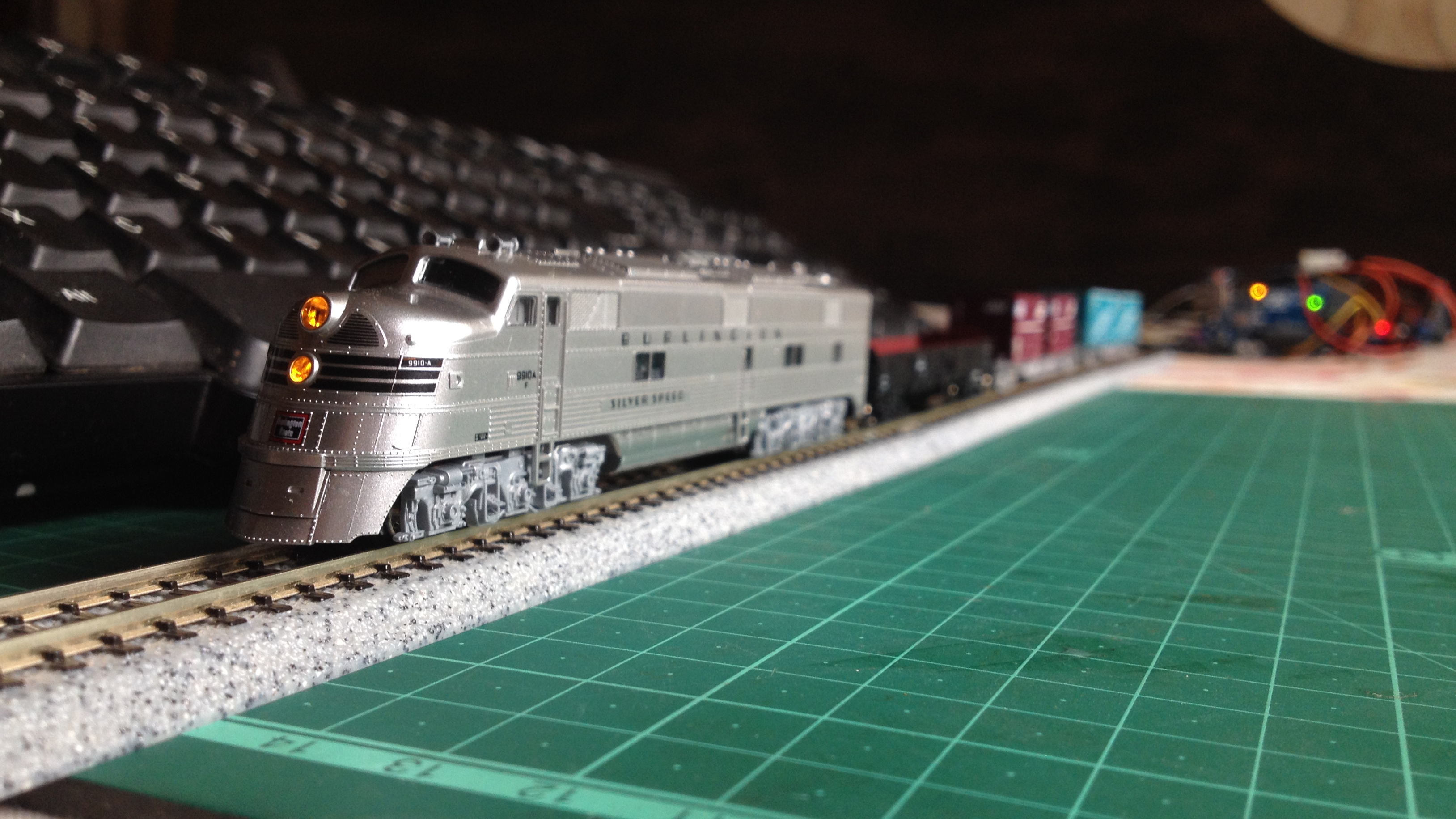 Manufactured by KatoUSA, this is a finely detailed, N-scale model of the EMD E5A "Silver Speed" locomotive. The locomotive has 6 axles per truck and is powered by a powerful 5-pole brushed DC motor that operates at 12-volts DC. This locomotive also allows a drop-in DCC decoder installation for operation on DCC layouts.